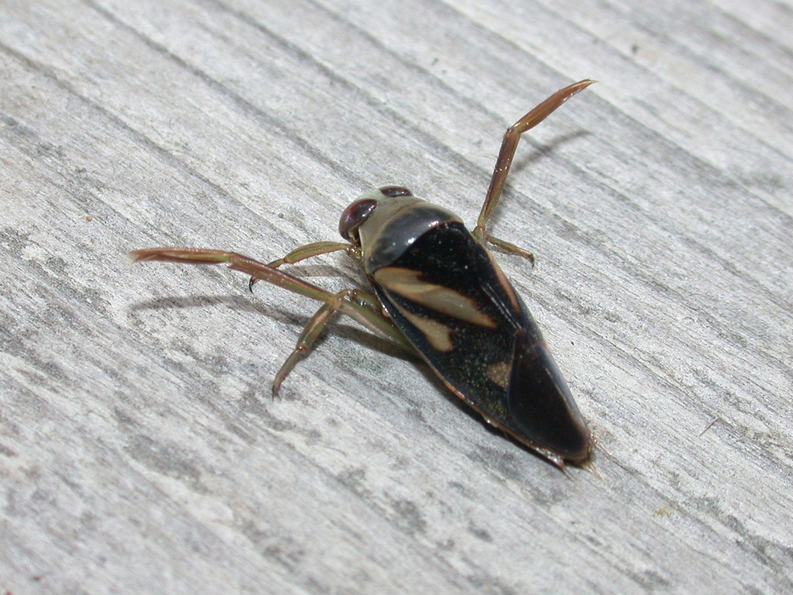 Notonecta triguttata(Notonectidae) Japanese name:Matumomusi Date;2008,03,16;Tanabe city, Wakayama prefecture, Japan Author;Keisotyo